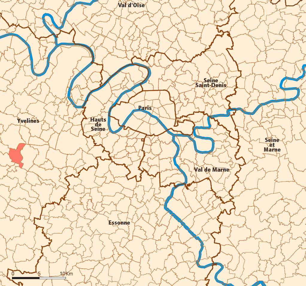 Created map myself.